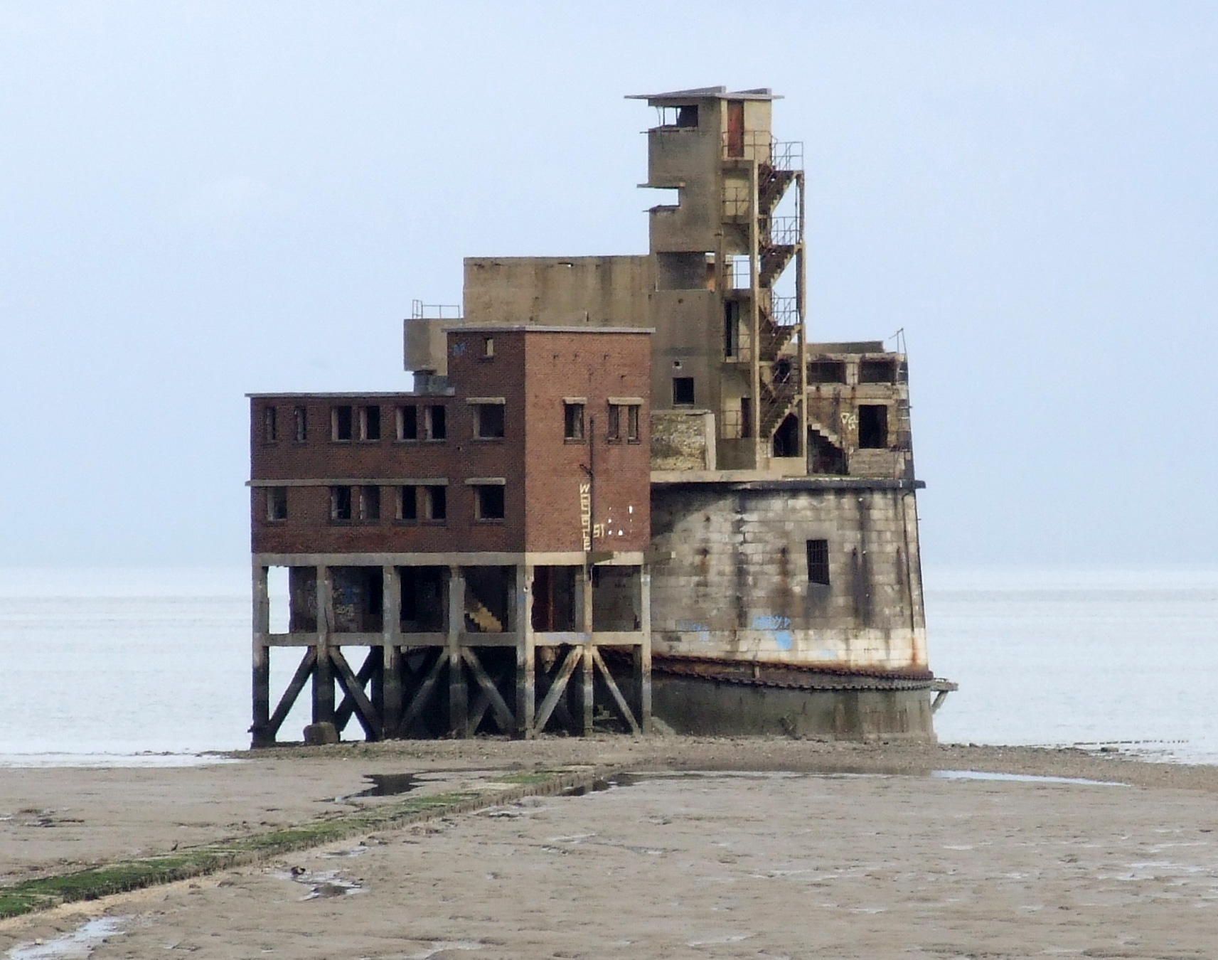 Grain Tower, Kent. Derived from original work (cropped and with colours balanced)